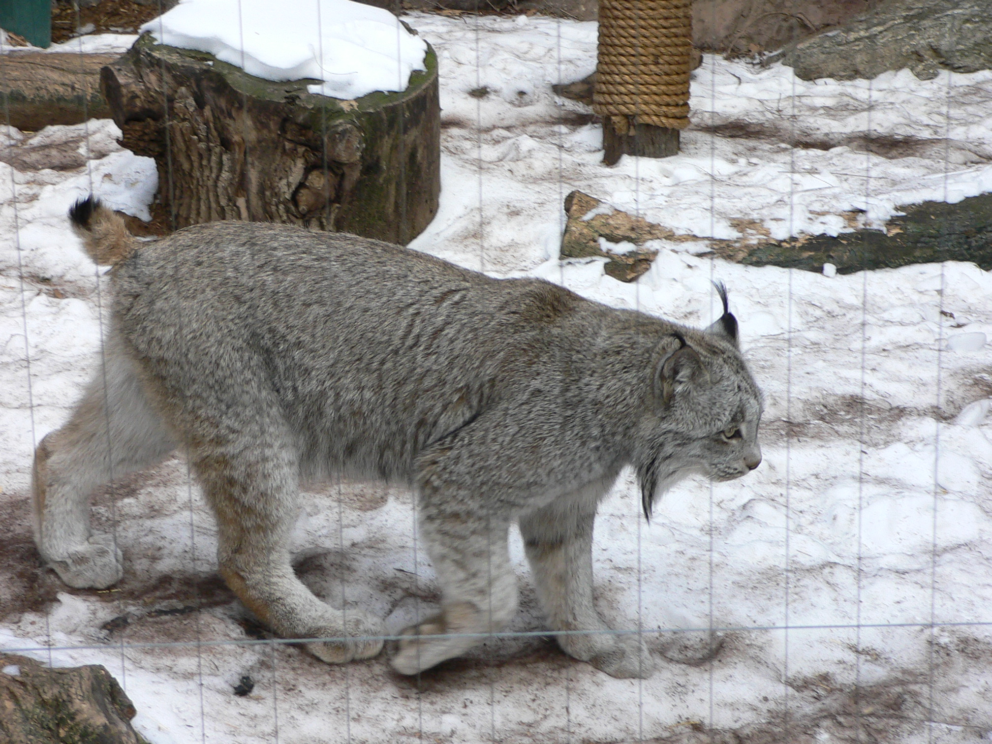 Canadian Lynx at Philadelphia Zoo.